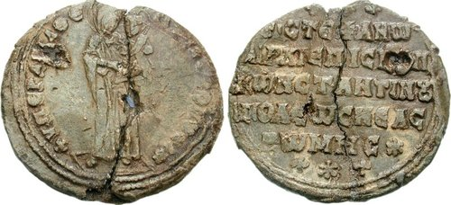 Stephen I or II. Patriarch of Constantinople, 886/93-925/8. PB Seal (41mm, 26.61 g, 12h). +VPERAGIA QE[OTOKE ROHQEI]Q, the Theotokos Hodeghetria standing facing, holding the child Christ in her left arm / [A]’ CTEFANw/ ARXIEPIC[KO]P/ KwNCTANTIN(OY)/POLEwC NEAC/ RwMHC (ornament) in five lines, + (ornament) + above and below. Cf. BLS I 8 (similar seal of Stephan I); DOCBS -; Seyrig -; Vatican -; Orghidan -; Jordanov -. VF, suspension crack, fragile.